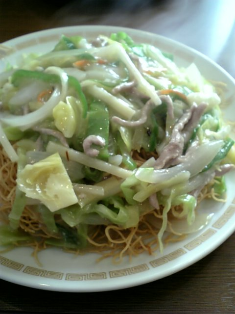 "SARAUDON" eaten in Kyoto